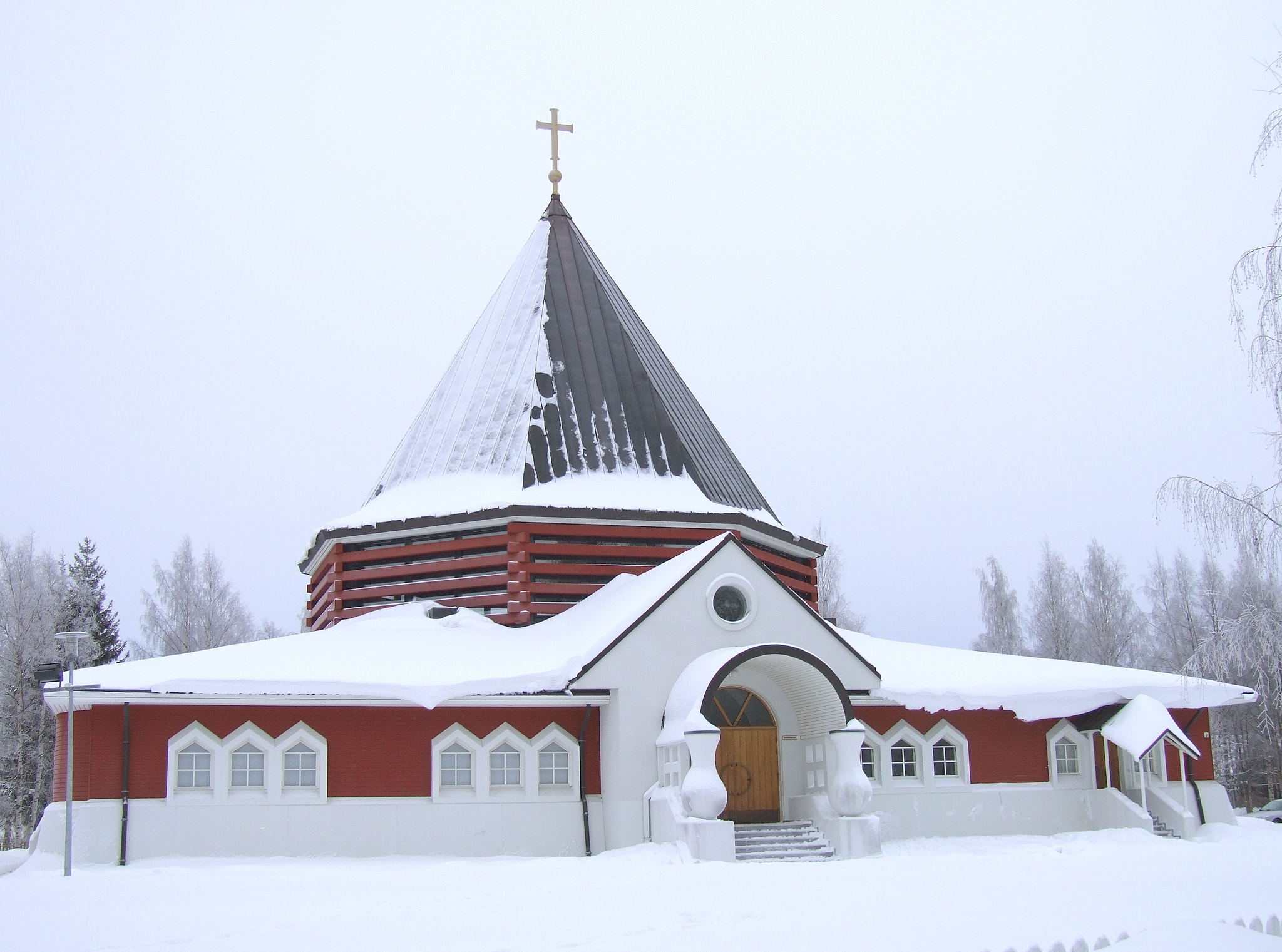 The church of the Holy Family of Nazareth Parish in Koskela neighbourhood, Oulu, Finland. The catholic parish of Oulu includes the provinces of Northern Ostrobothnia and Lapland. The church was designed by architect Gabriele Geronzi and it was built in the year 2000. Weather: –5°C